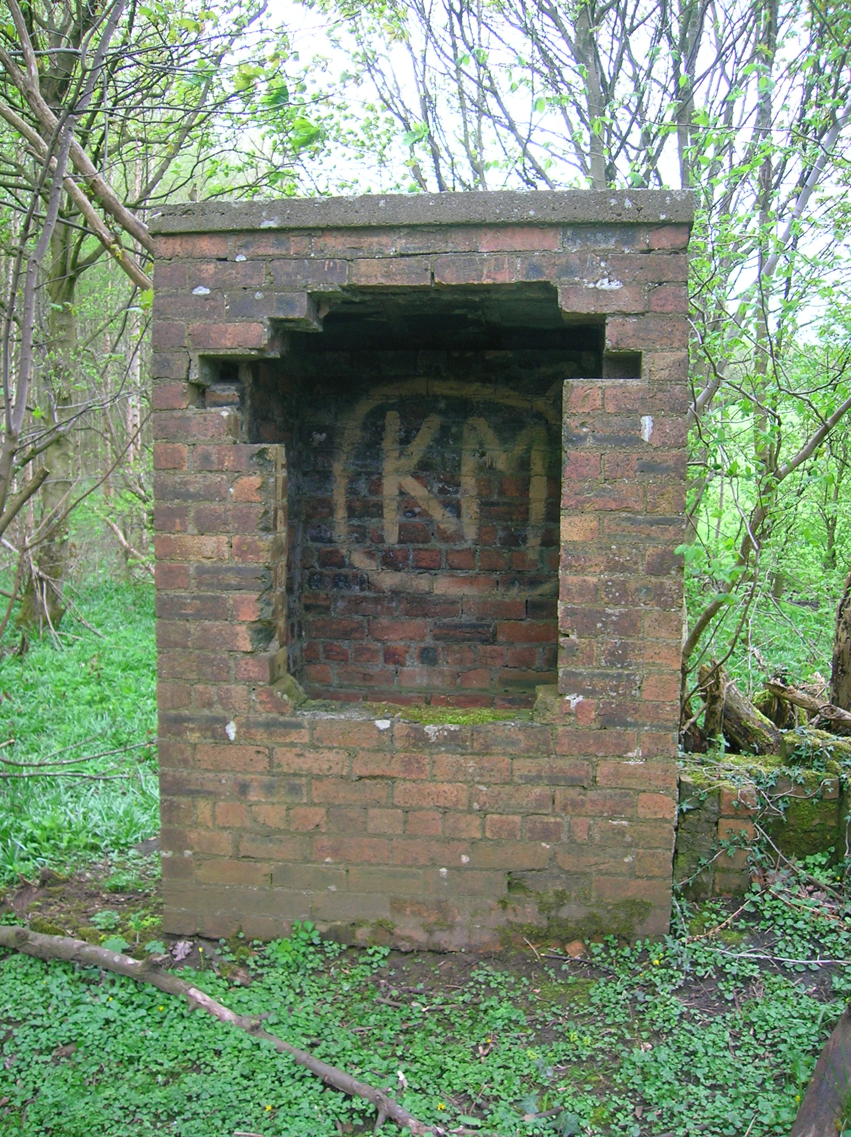 Explosives magazine at the old Ladyha' Colliery, Eglinton, Irvine, Ayrshire, Scotland.Probably used for storing dynamite for the mine.